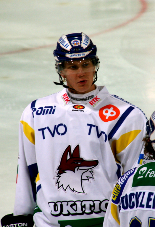 Ice Hockey Team Rauman Lukko's Defender #85 Mikko Kuukka